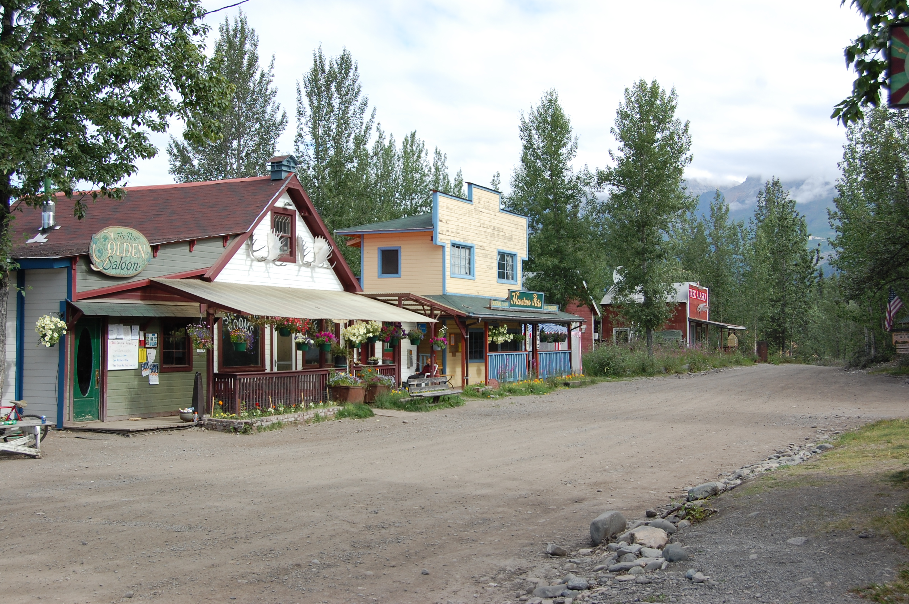 Main St, McCarthy